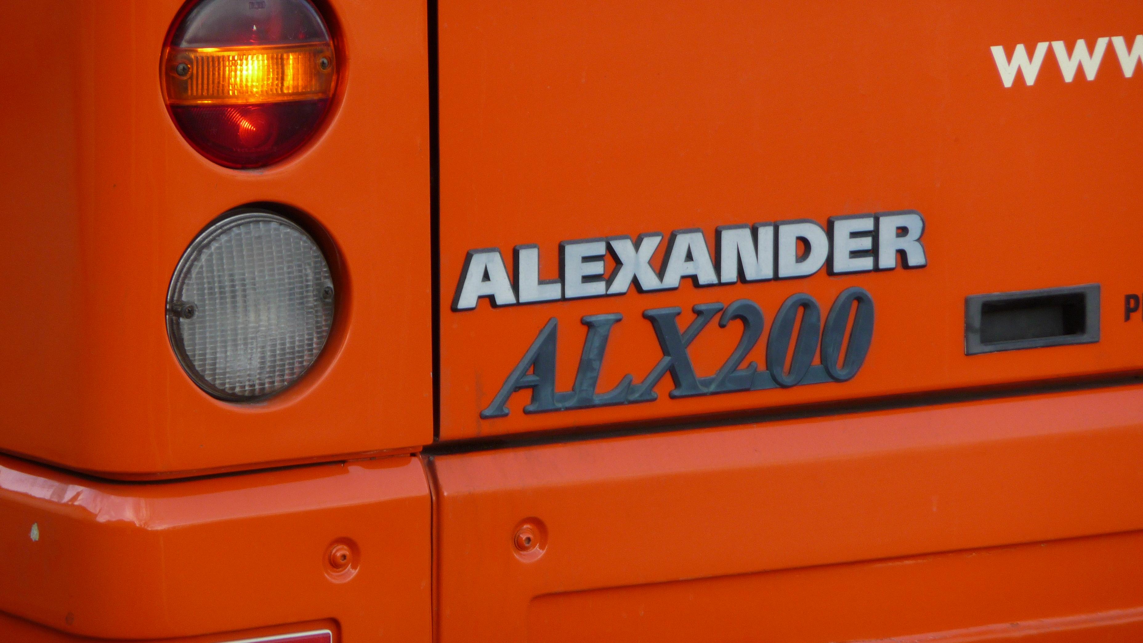 The Alexander ALX200 badges on the rear of Shamrock Buses 212 (JFR 13W, formerly X242 ABU), a Dennis Dart SLF/Alexander ALX200, in Bargates, Christchurch, on route 31.